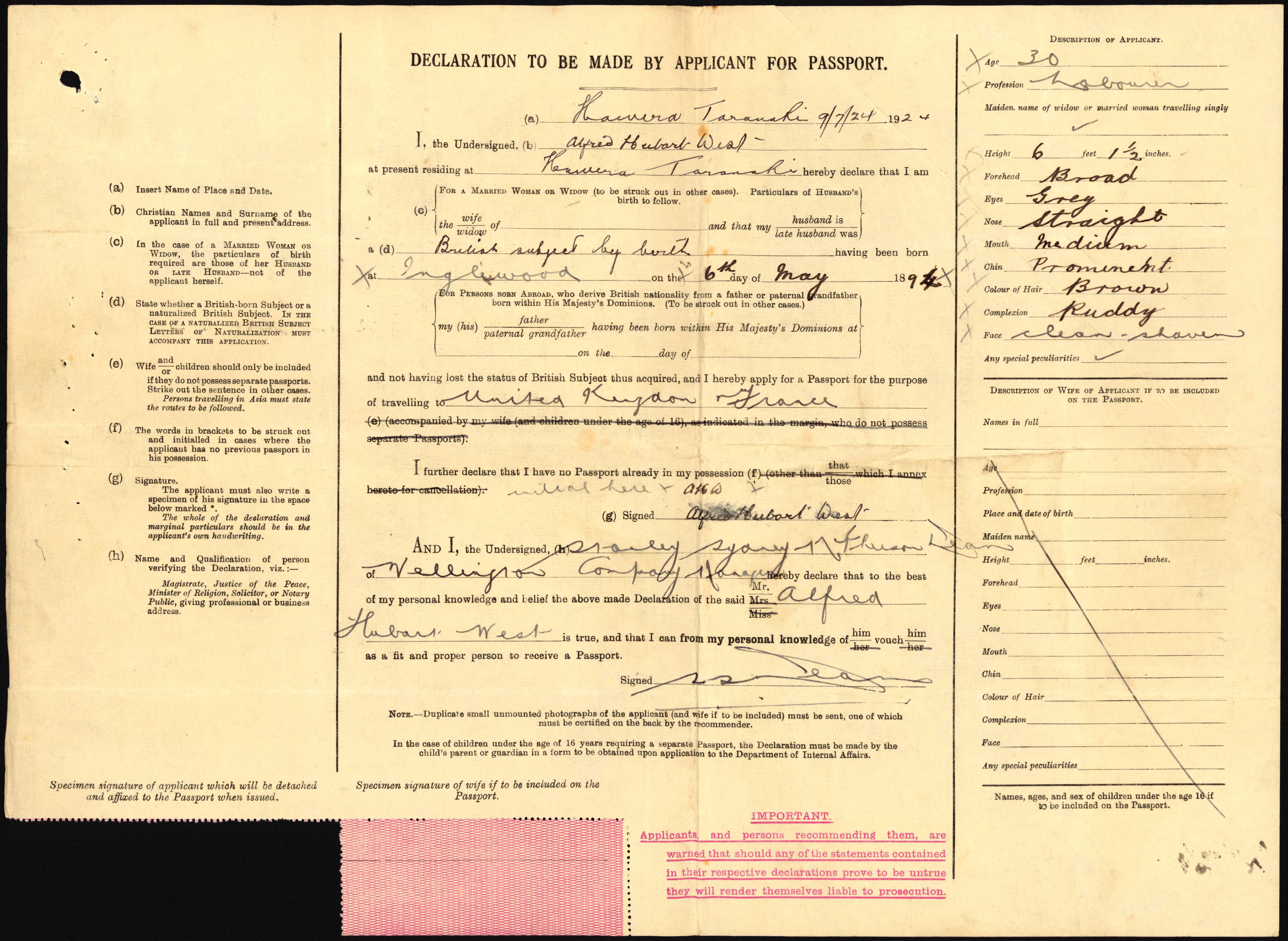 ACGO 8333 IA1 1349 / 15/11/17721 Alfred West passport application (1924)